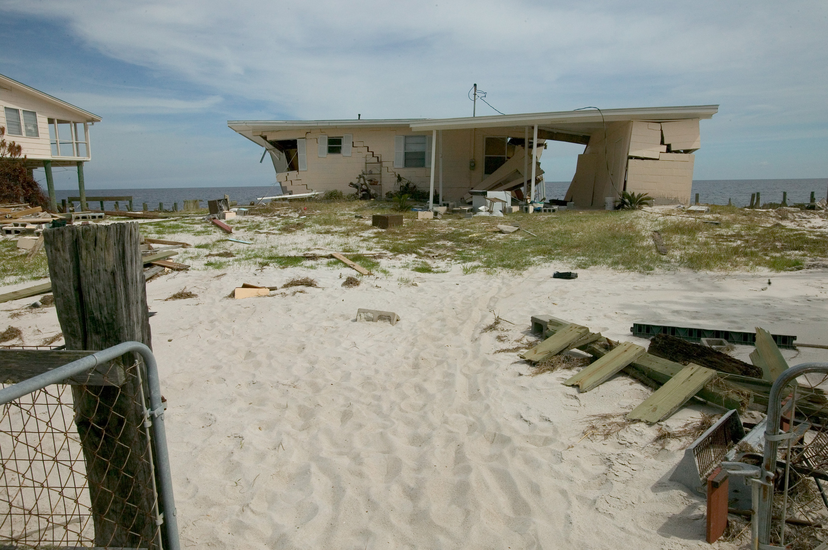 Houses damaged along the beach in Florida as a result of Hurricane Dennis